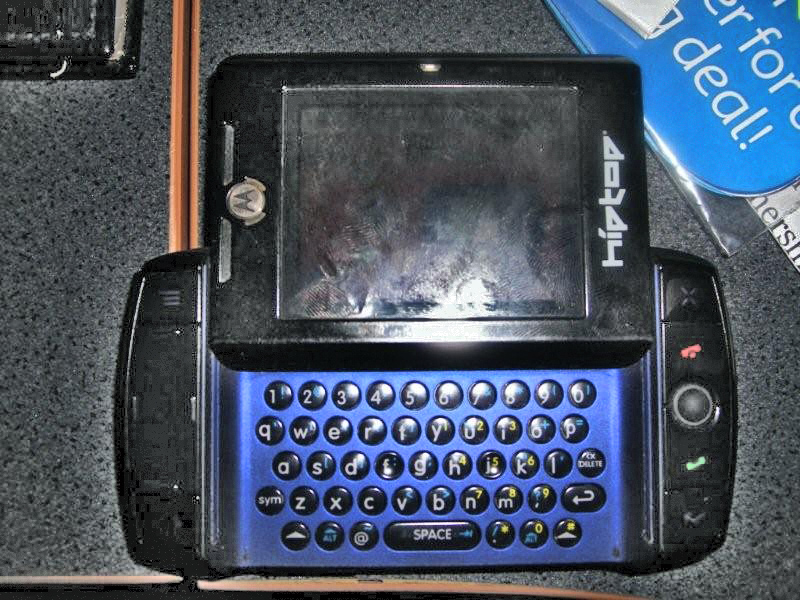 Motorola